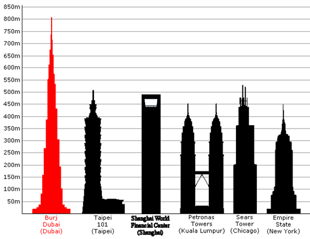 Tallest buildings comparsion